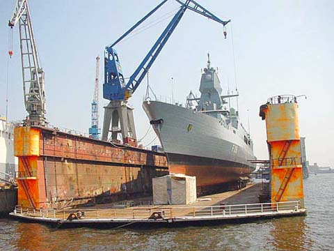 The German frigate Sachsen (F 219) in a drydock.